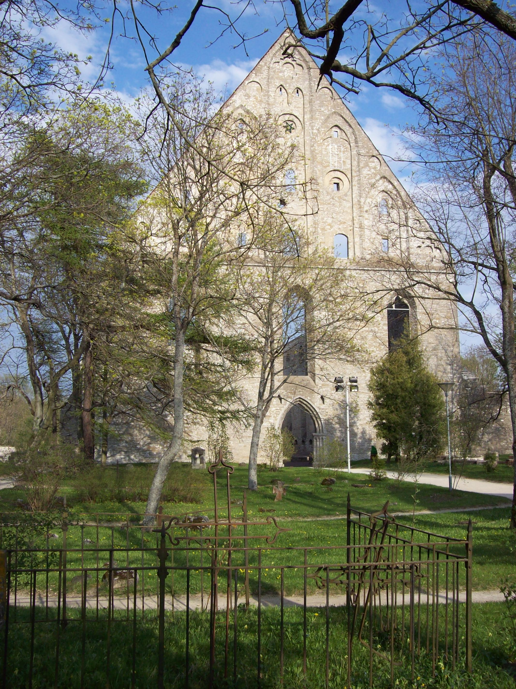 Ruin of Brigitte Monastery in Tallinn